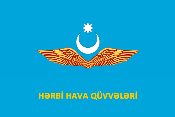 Flag of Azerbaijan Air Forces.